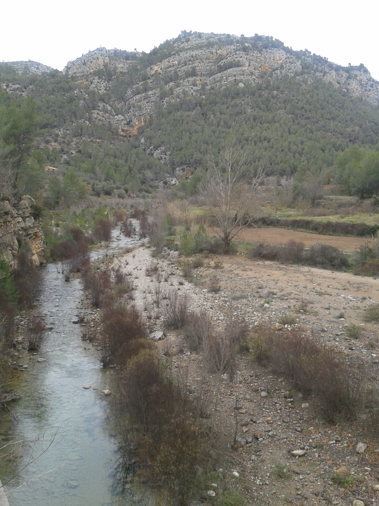 Villahermosa River from the CV-190 road bridge (Castillo de Villamalefa, Alto Mijares, Castellón, Spain)